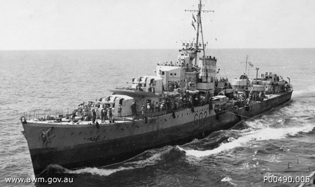 AWM Caption: Port bow view of the N Class Destroyer HMAS Nestor, one of the five ships of this class which served in the Royal Australian Navy during the Second World War. (...)